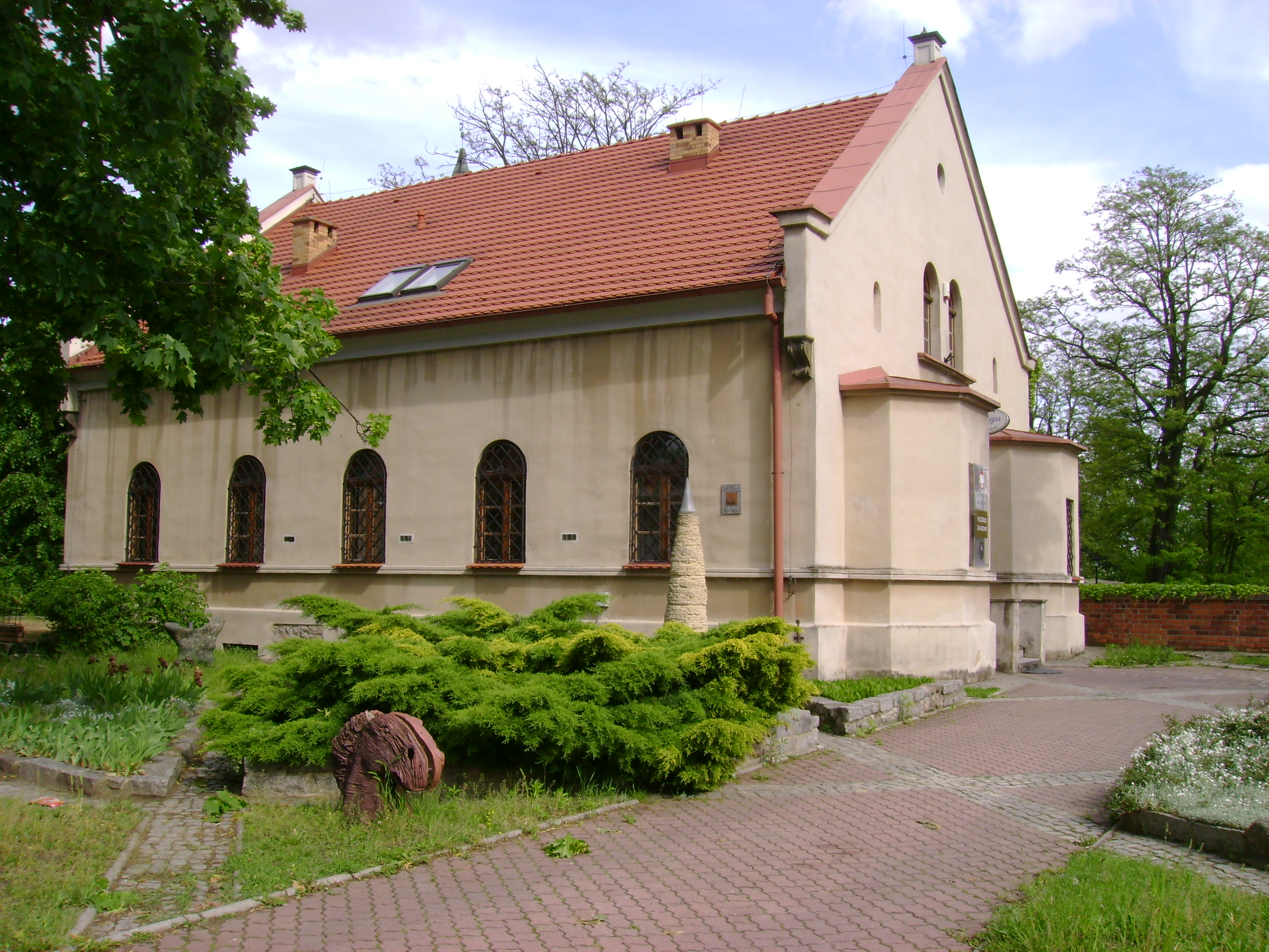 OK "Wzgorze Zamkowe" Galeria JADWIGA 2